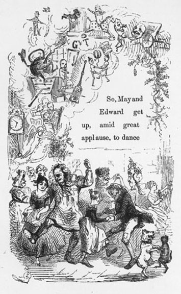 Illustration (1843) by John Leech for "The Cricket on the Hearth", a novel by Charles Dickens.